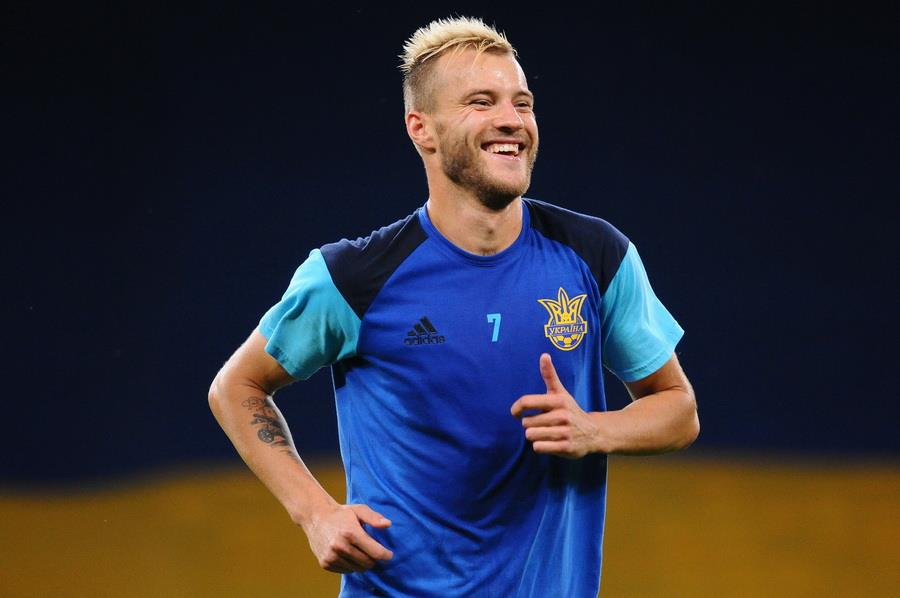 Yarmolenko with Ukraine in 2016.